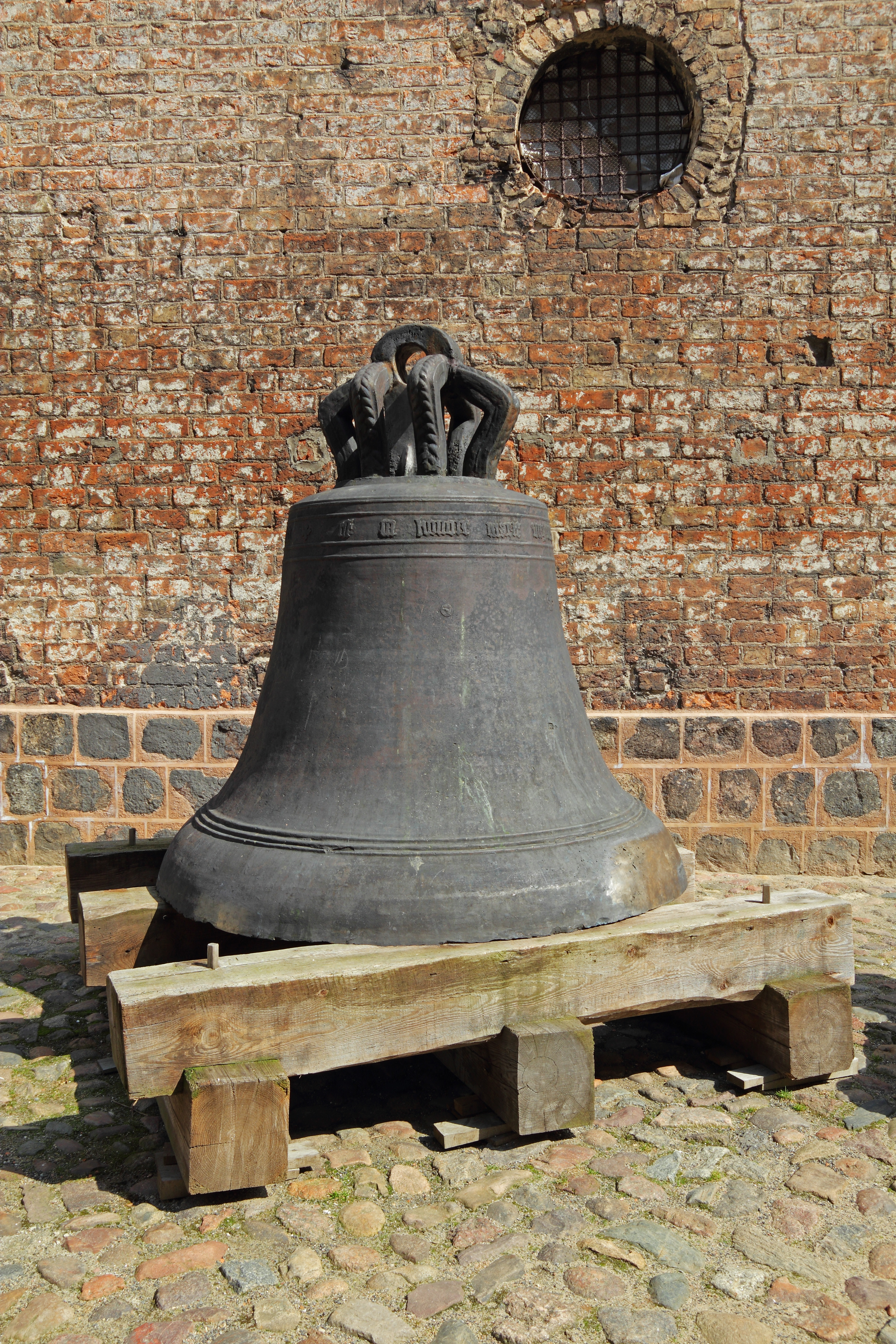 St. Mary Church in Frankfurt (Oder), Brandenburg, Germany